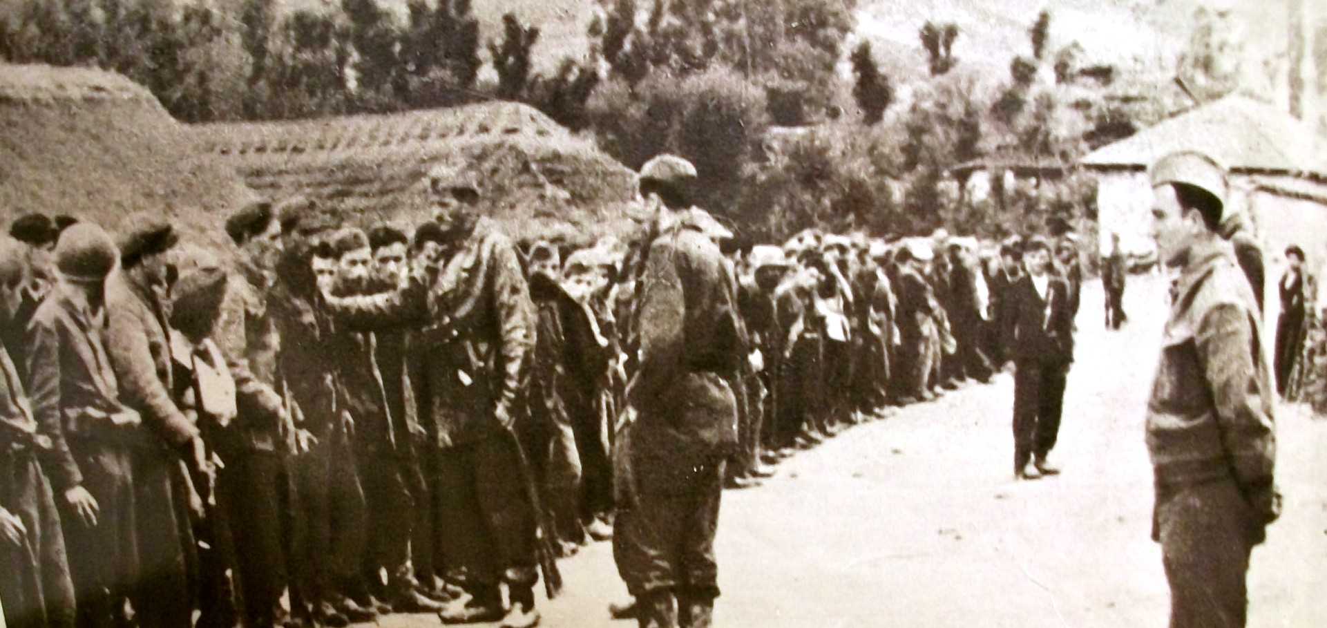 The 12th Skopje Partisan Brigade. Pictured in foreground at right is Bojidar Nikolaiovich Kapusto.